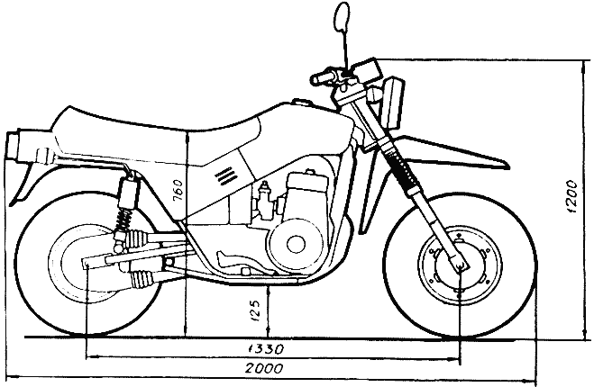 tula-tmz-5-951